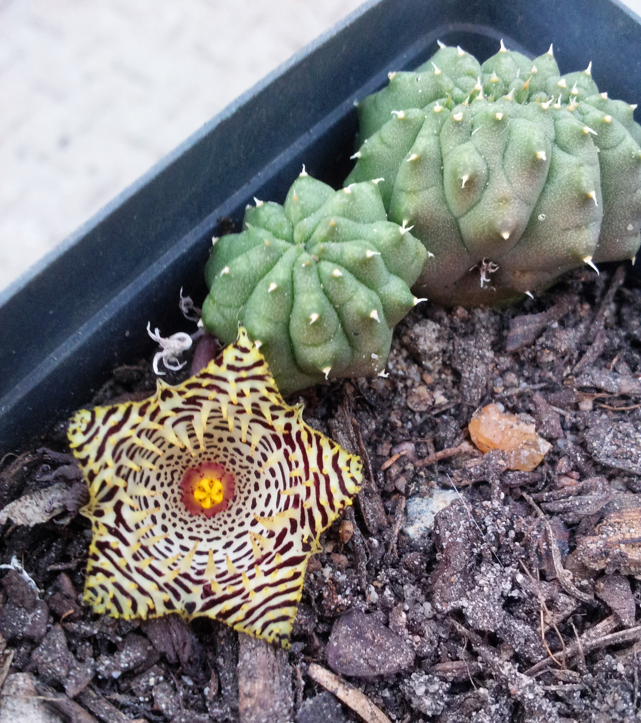 Huernia kennedyana in flower